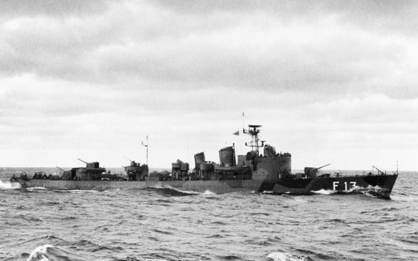 The Swedish frigate HMS Hälsingborg.